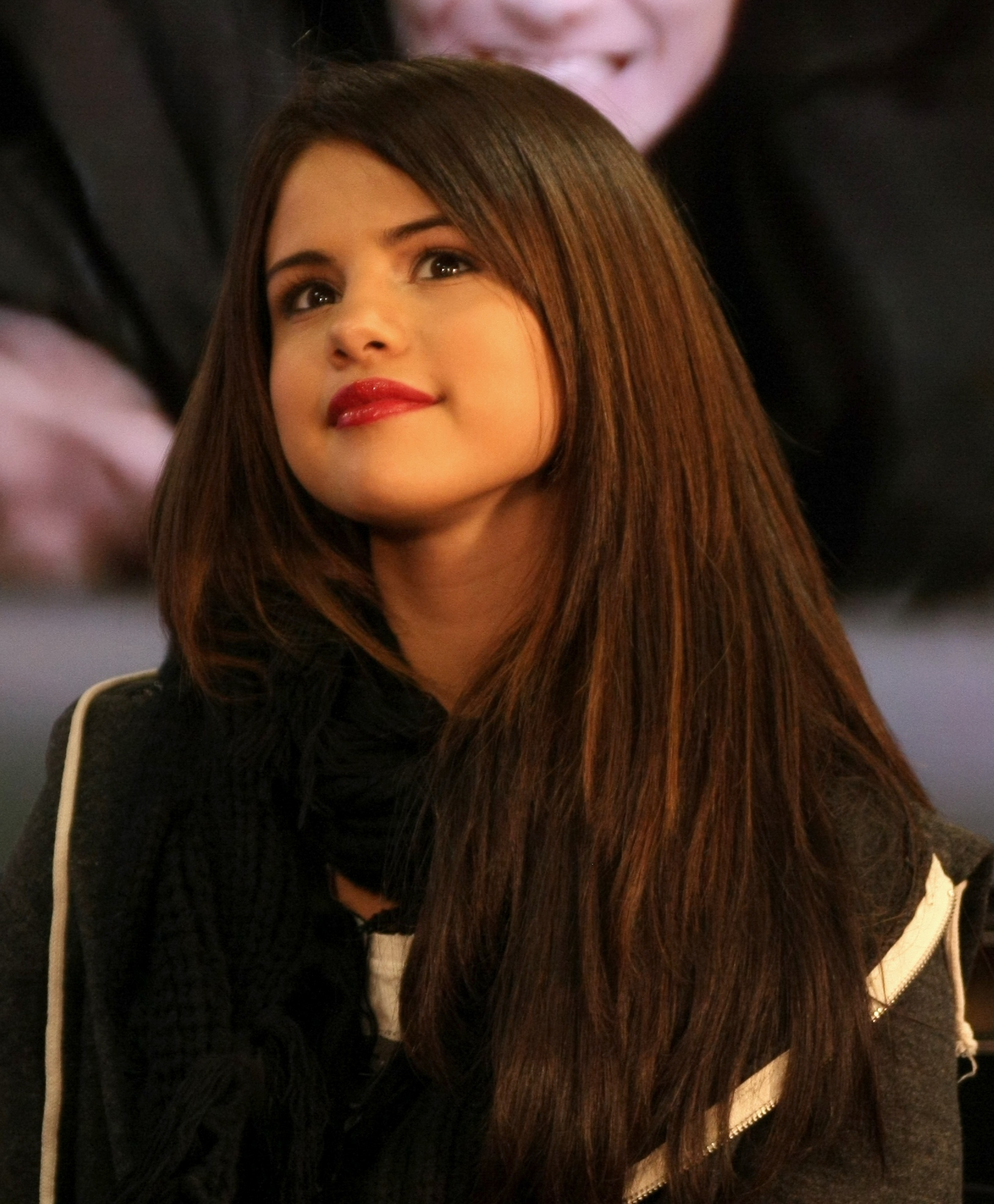 Selena Gomez performing live at KISS 108 Jingle Ball December 2010